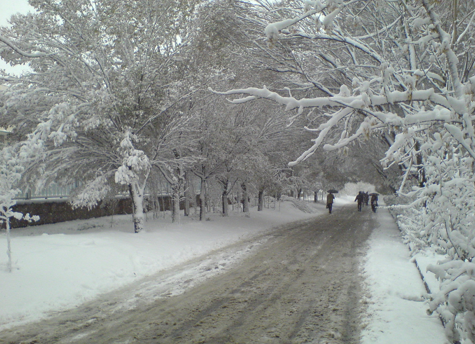 University of Tabriz, Iran, Tabriz